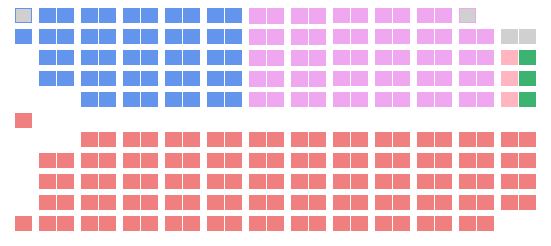 Canadian House of Commons composition in 1921. Each square represents one member.